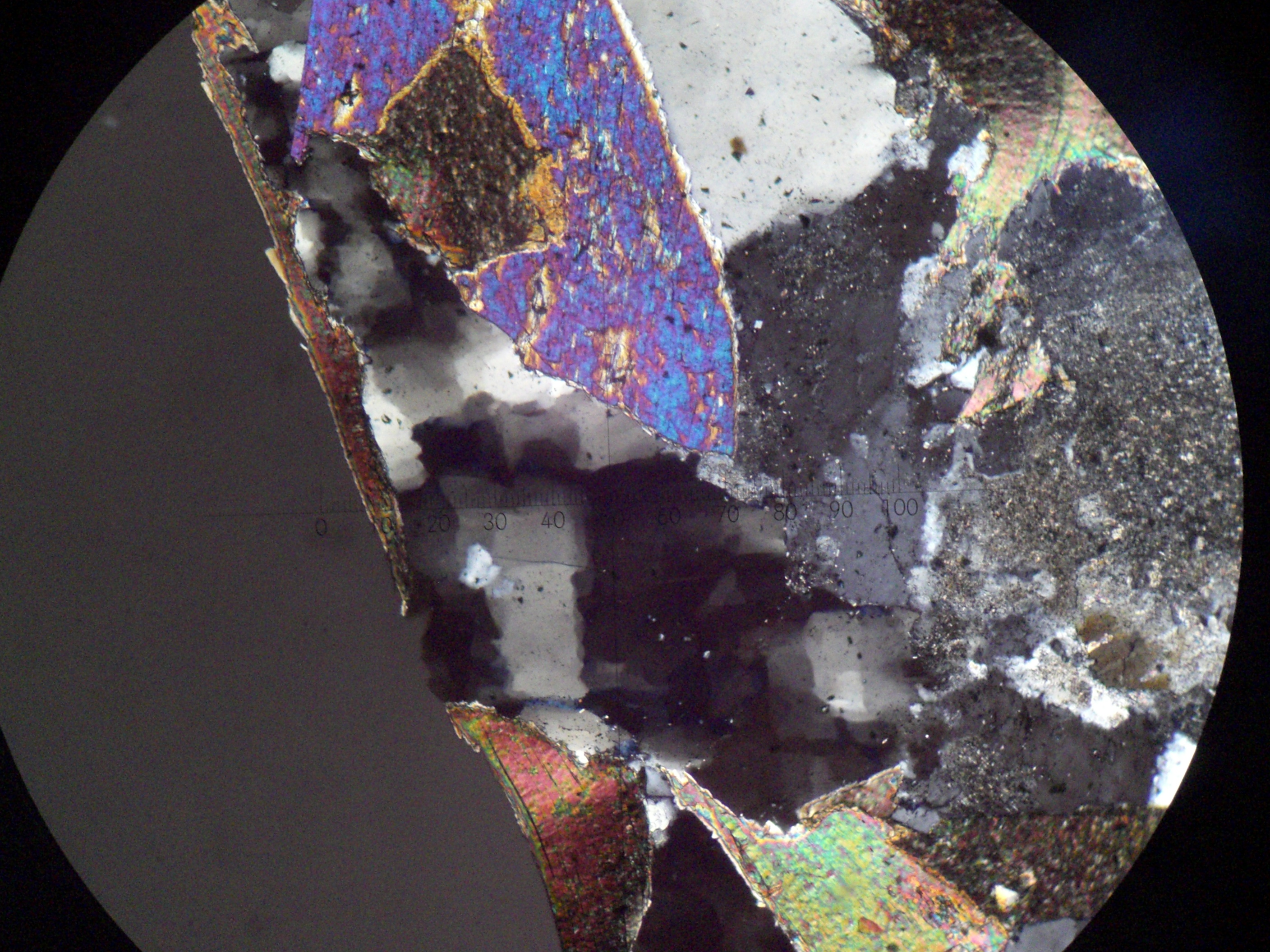 Xenomorf´s grain of quartz observed by 2 nikols which is sittuated on the center of thread´s cross (size about 2 mm). On the top is grains Amphiboleand. On the right site is Plagioclase. (Zoom in 40 times, 1 millimetre corresponding to 40 units on the scale) By Chmee2